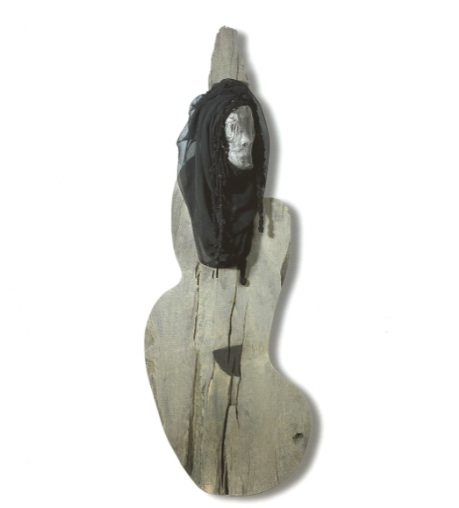 sculpture by Margherita Pavesi Mazzoni 'female archetype'